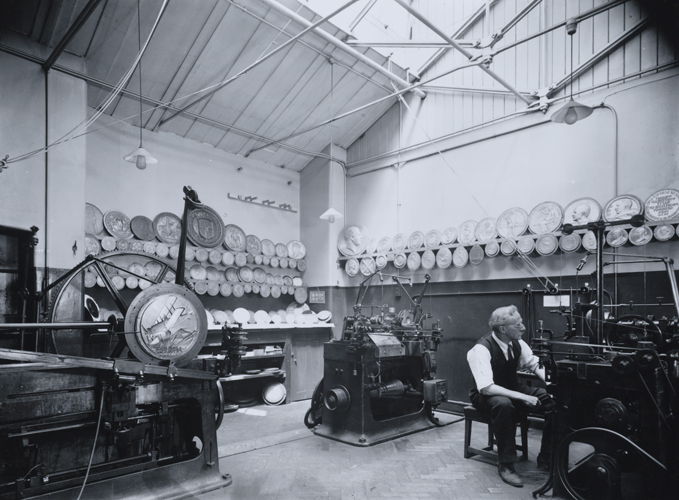 Photograph of an engraving room at the Royal Mint circa 1934. Reproduced from a glass negative held by the Royal Mint Museum. Image shows a Janvier reducing machine in the center and craftsman Alfred Patrick Tims (born 17th March 1874) on the right.